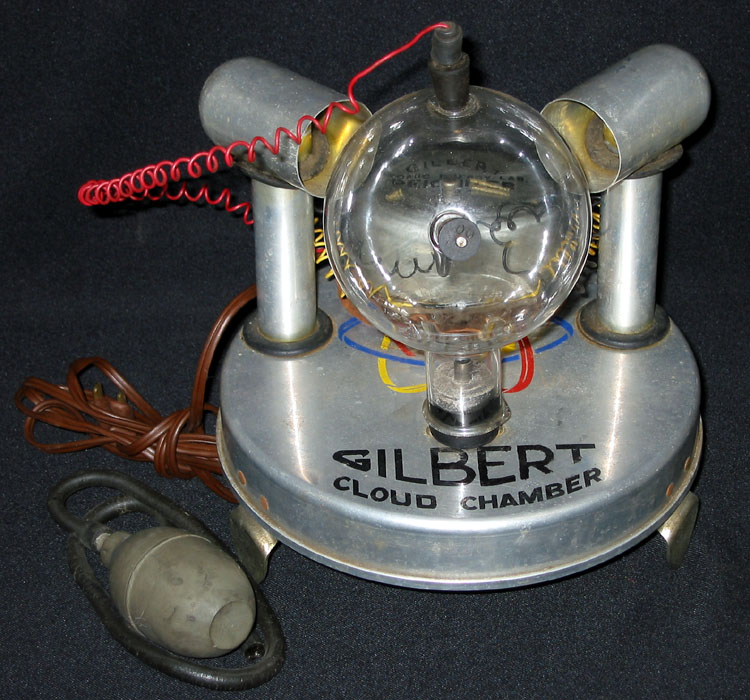 Gilbert "Cloud Chamber": Circular steel base supported by three steel stands; a glass bulb sits on a black-coated steel stand; a red-coated wire is attached to the top of the bulb with a rubber stopper and connects to the deionizer; on both sides of the bulb, in a triangular formation, are two steel stands that support cylindrical compartments; inside the compartments are the tops of the steel stands; yellow- and black-coated wires come out of the closed end of the compartments and attach to the deionizer; the deionizer is an egg-shaped steel object with a flat steel base; it has wires emanating from both sides, a steel push button on top, and an electrical chord coming from its left side; a rubber hand pump can be attached can be connected to the glass bulb/chamber underneath the base. On base: "GILBERT / CLOUD CHAMBER" From product catalogue description: "Produces awe-inspiring sights! Enables you to actually SEE the paths of electrons and alpha particles traveling at speeds of more than 10,000 miles per SECOND! Electrons racing at fantastic velocities produce delicate, intricate paths of electrical condensation--beautiful to watch. Viewing Cloud Chamber action is closest man has come to watching the Atom! Assembly kit (Chamber can be put together in a few minutes) includes Dri-Electric Power Pack, Deionizer, Compression Bulb, Glass Viewing Chamber, Tubing, power leads, Stand and Legs.